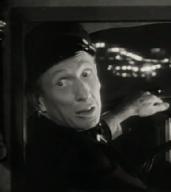 Tom Fadden in The Strange Love of Martha Ivers - cropped screenshot